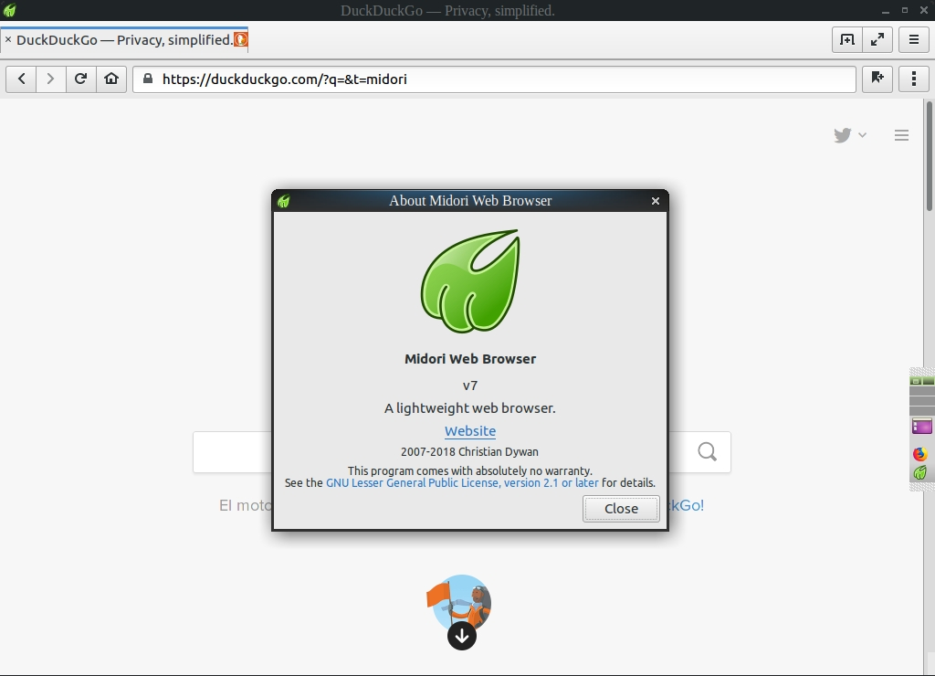 About Midori Web Browser v7 running on Ubuntu 18